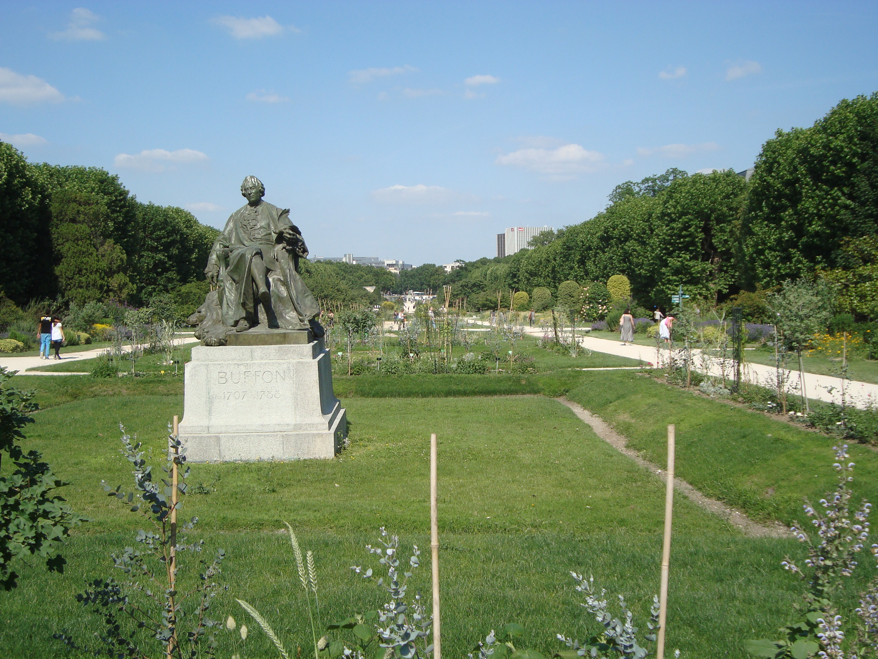 Perspective of the Jardin des Plantes in Paris, with the statue of Buffon on the left